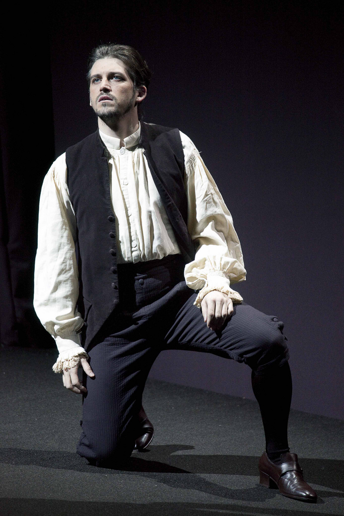 Juan Francisco Gatell as Don Ottavio in Don Giovanni (Teatro Comunale di Bologna, 2011) R Casalucci